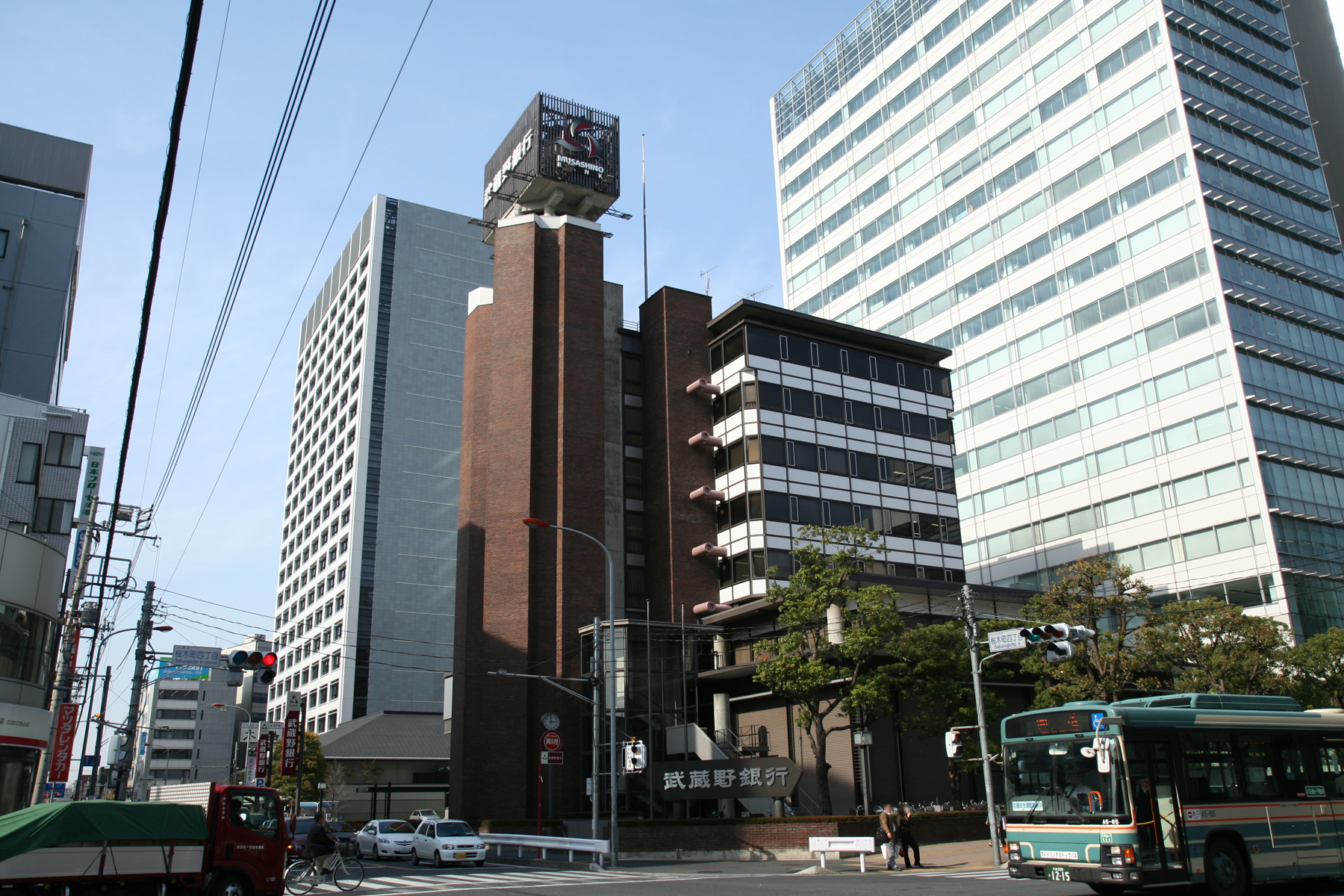 Japanese The Musashino Bank head office in Saitama, Saitama.